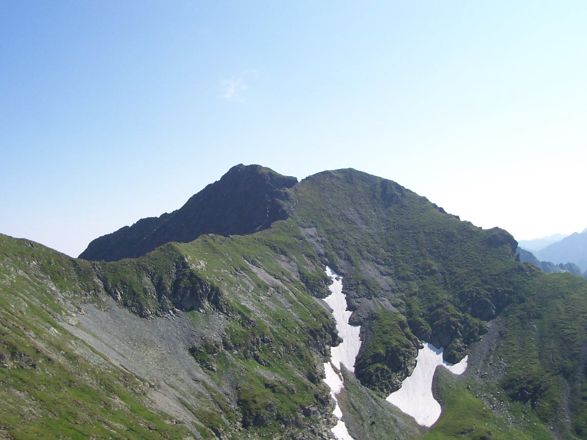 Vânătoarea mount, Romania